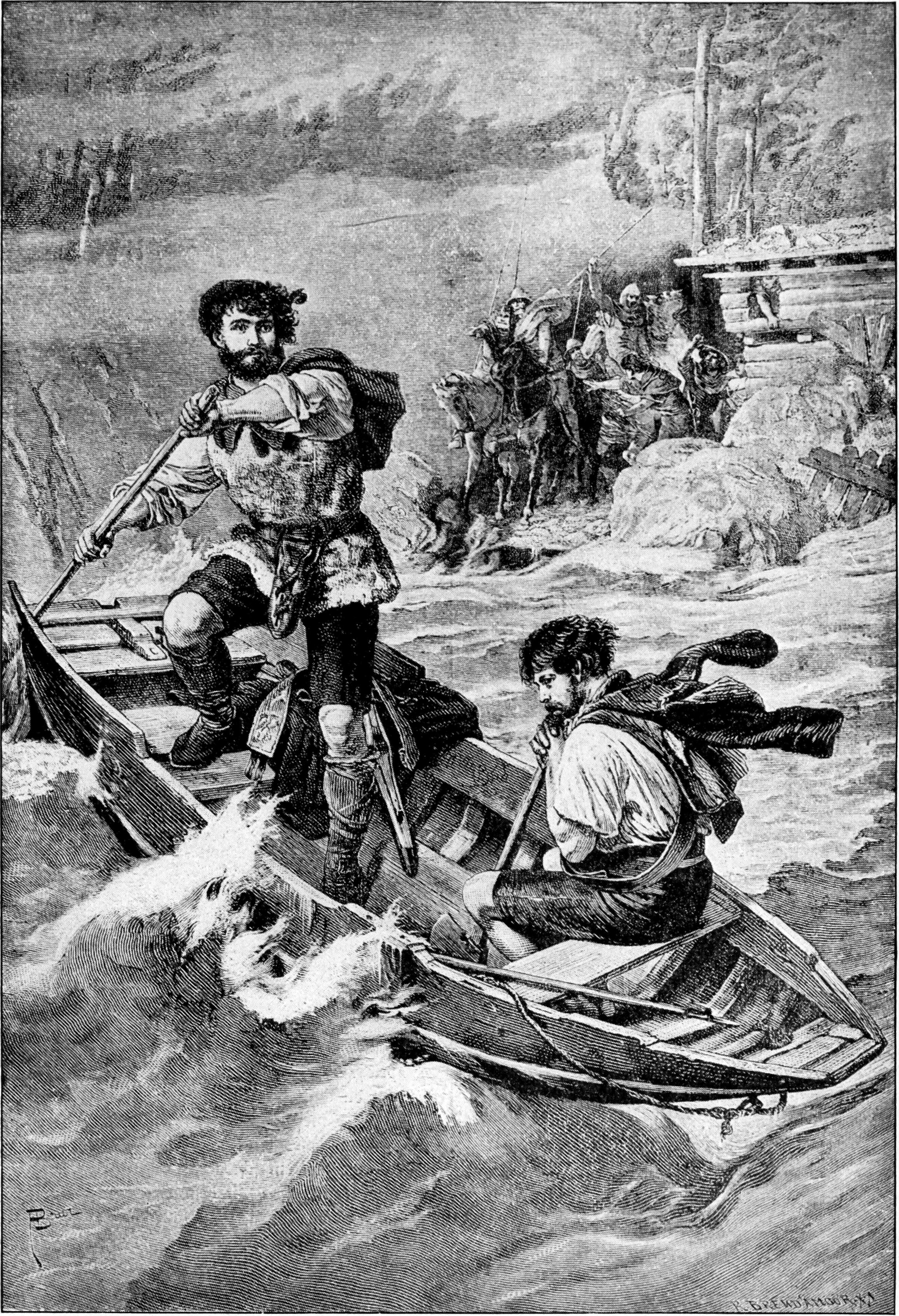 Rossini - Guillaume Tell - Tell saves Leuthold from the tyrant Title: The Victrola book of the opera : stories of one hundred and twenty operas with seven-hundred illustrations and descriptions of twelve-hundred Victor opera records Year: 1917 (1910s) Authors: Victor Talking Machine Company Rous, Samuel Holland Subjects: Operas Publisher: Camden, N.J. : Victor Talking Machine Co. Text Appearing Before Image: emands the sacrifice. They then break to Arnold the news that Gessler has put his father to death, and feel-ings of vengeance drive from his mind all thought of Matilda. The men of the cantons now assemble, and in a splendid finale swear to conquer or die. Domo, o ciel, da uno straniero (By a Vile Foreigner Subdued) By Nestore Delia Torre, Baritone (In Italian) 76013 12-inch, $2.00 The curtain falls to a magnificent outburst of patriotism, To arms! To arms! ACT III SCENE—The Grand Square of Altorf—Gesslers Castle in the Background. In the Foreground a Pole surmounted by a CapGessler and his barons are seated on a throne at one side of the Square, while variousamusements are given for their entertainment. It is here that the superb ballet, one of themost beautiful ever composed, is introduced. William Tell Ballet Music—Parts I and II By Pryors Band *35042 12-inch, $1.25William Tell Ballet Music—Part III By Pryors Band *165 78 10-inch, .75 Double-Faced Record—See page 551. 548 Text Appearing After Image: FROM AN OLD ENGRAVING Tell Saves Leuthold from the Tyrant VICTROLA BOOK OF THE OPERA—ROSSINIS WILLIAM TELL